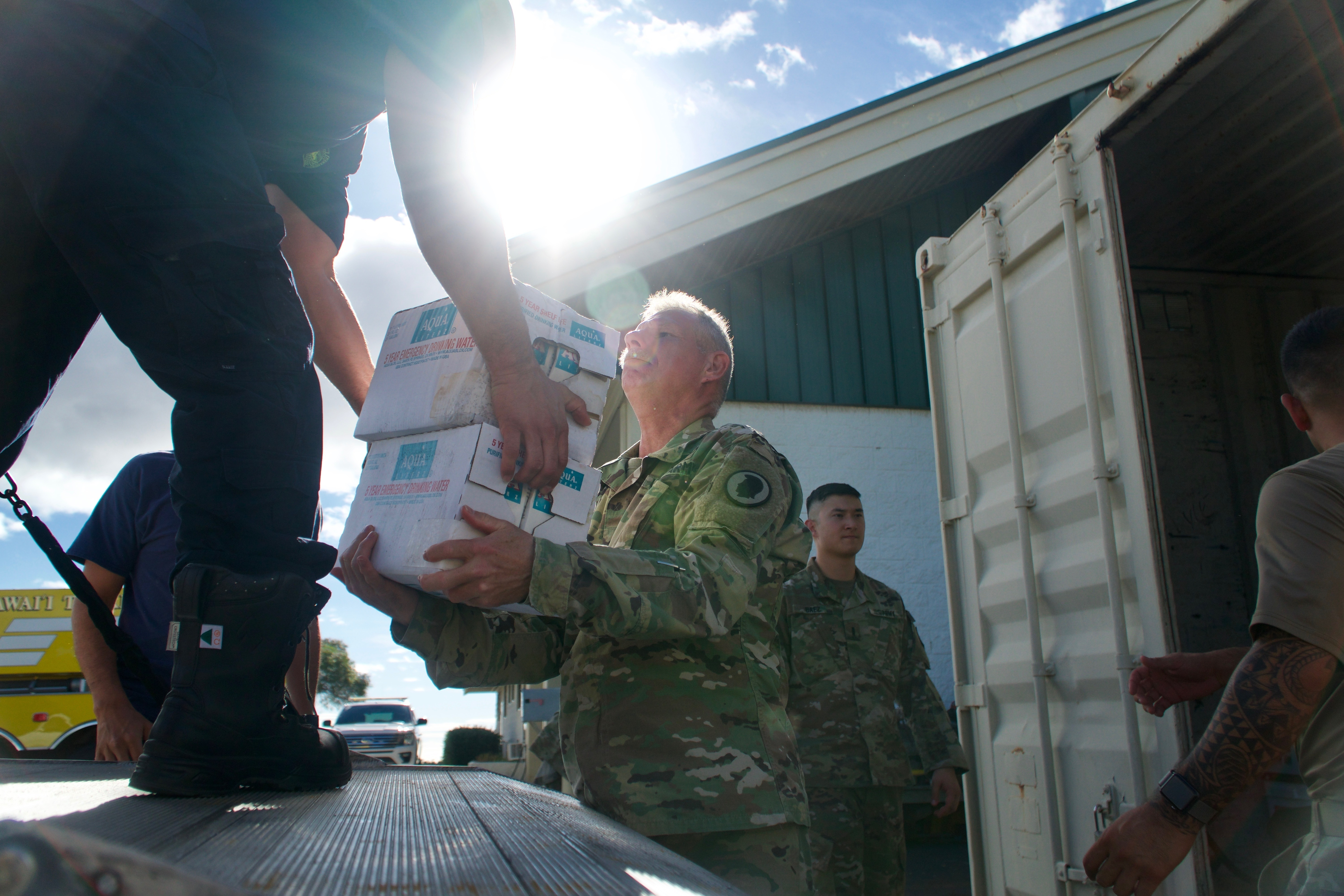 Staff Sgt. Dale Nimz, a Chinook CH-47 Mechanic with Bravo Company, 171st Aviation Regiment Detachment, helps unload water that was delivered to be used during the support efforts for Hurricane Olivia at Waikoloa, Hawaii, Sep. 11, 2018. An emergency proclamation was signed by Governor David Ige on Sep. 9, 2018 which allowed the Hawaii National Guard to deploy to areas needing support due to Hurricane Olivia's impacts. (U.S. Air National Guard Photo by Staff Sgt. James Ro)